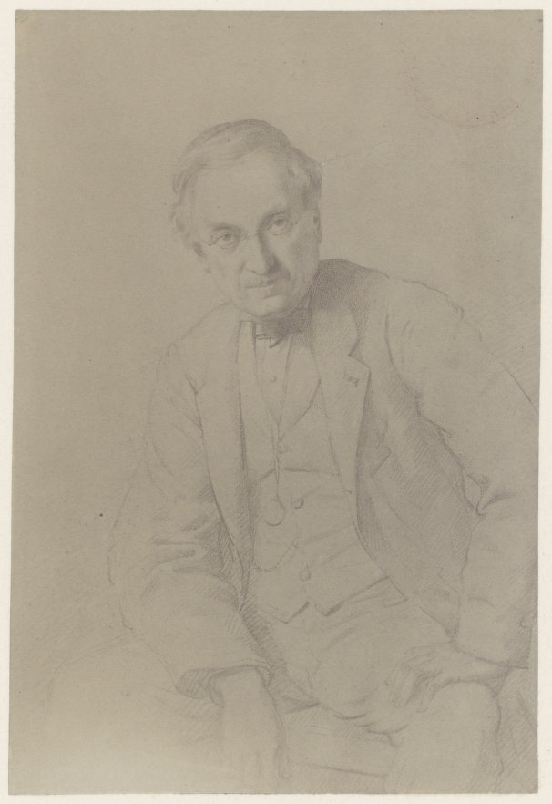 Eugène Sauzay (1809–1901), reproduction d'un dessin, c.1900